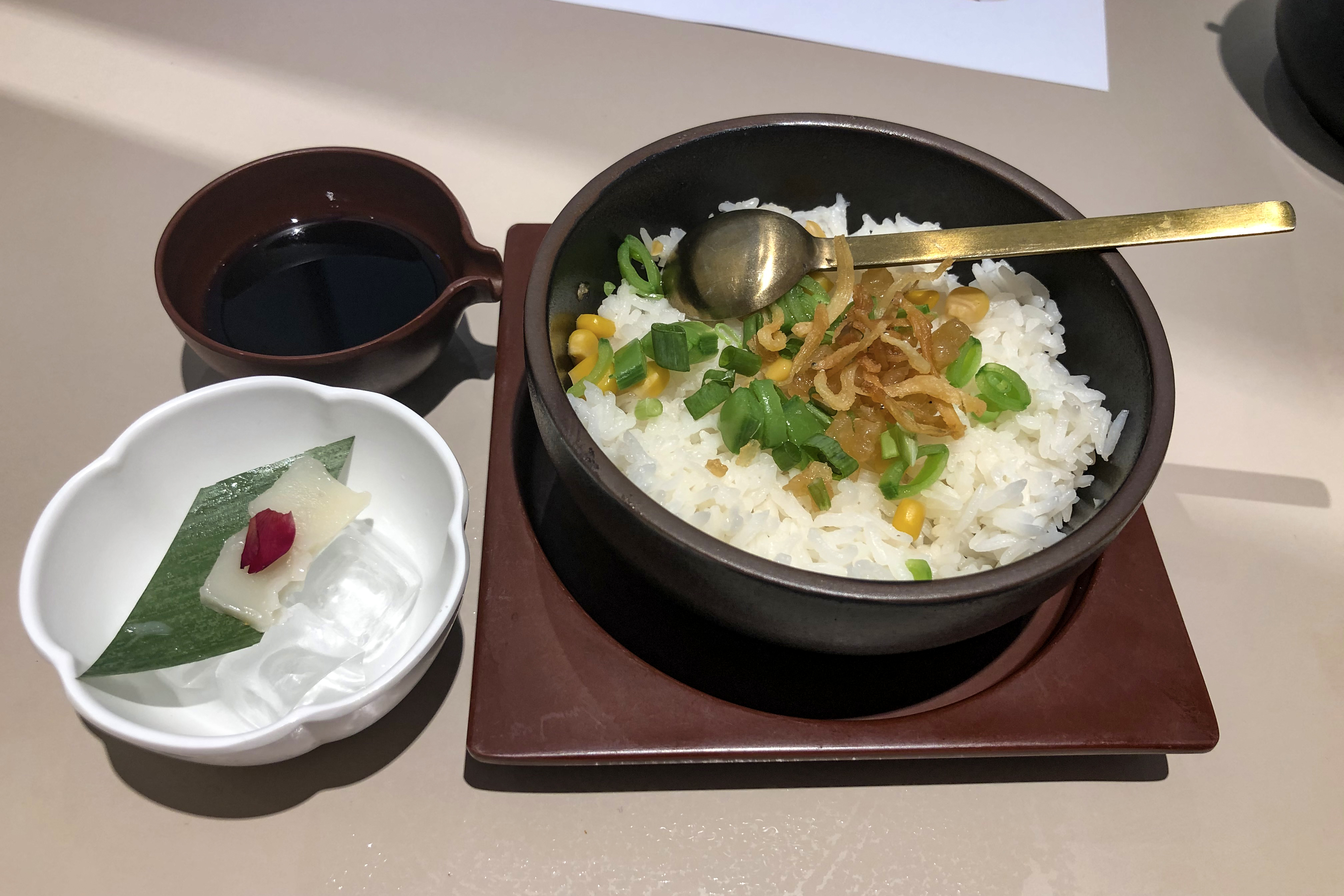 CNY22 for this small bowl - enough for one to order others. Chua Lam's favourite dish?